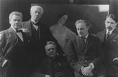 Portrait photograph by Arnold Genthe (1869-1942) of a group of Russian artists: actor Ivan Moskvin (1874-1946), actor and theatre director Constantin Stanislavski (1863-1938), opera singer Feodor Chaliapin (1873-1938), actor Vasili Kachalov (1875-1948), and painter Saveli Sorine (1878-1953)